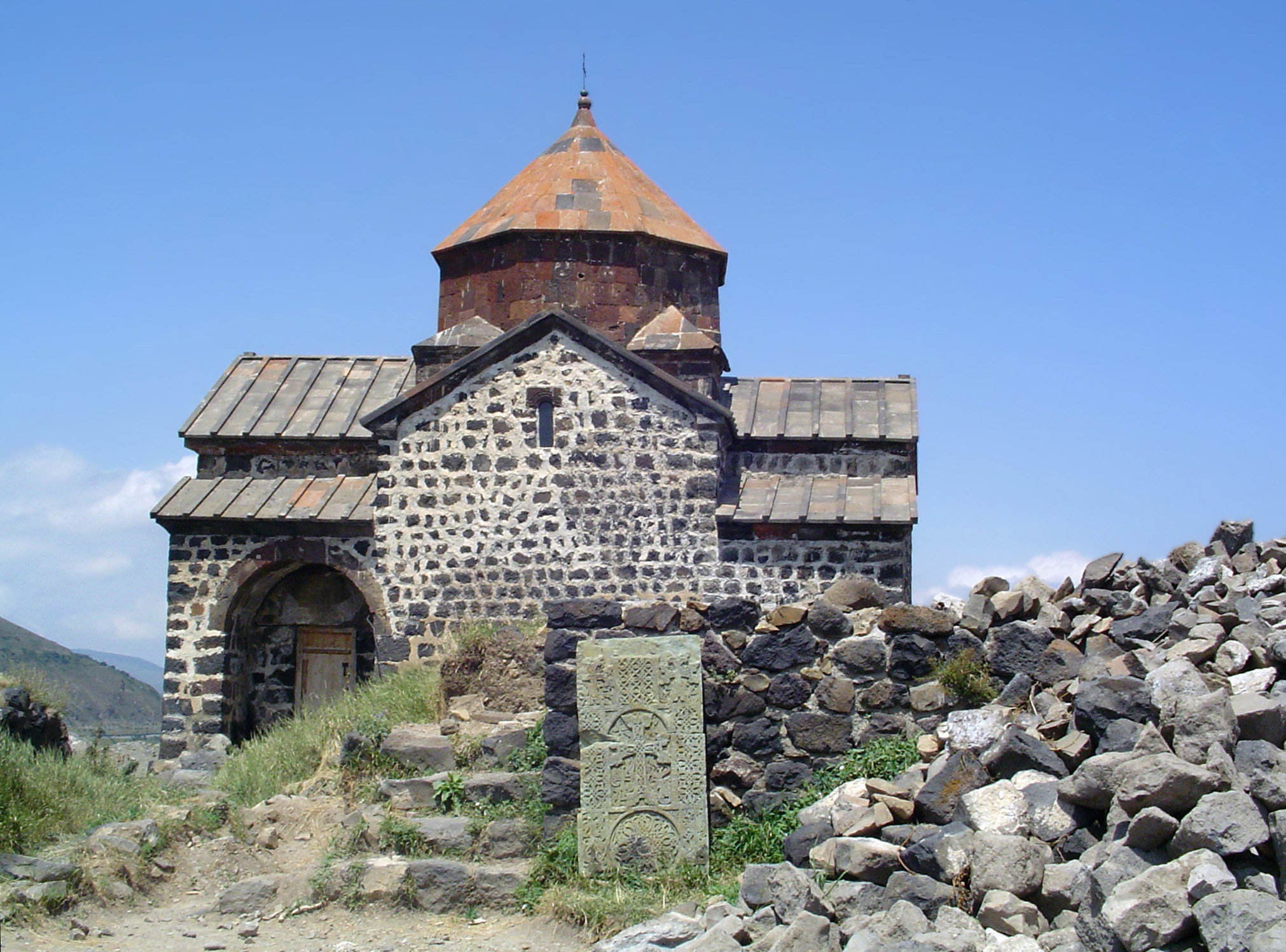 Sevanavank monastery. Astvatsatsin church and xachqar.